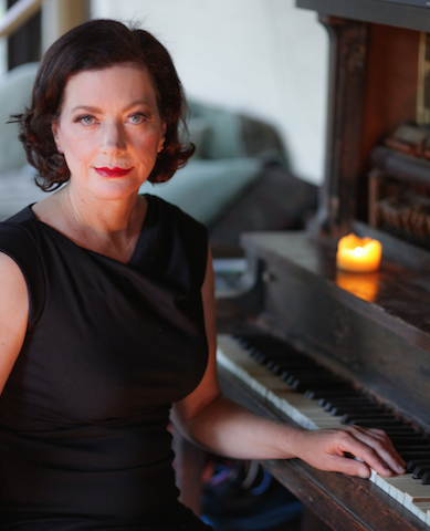 photo